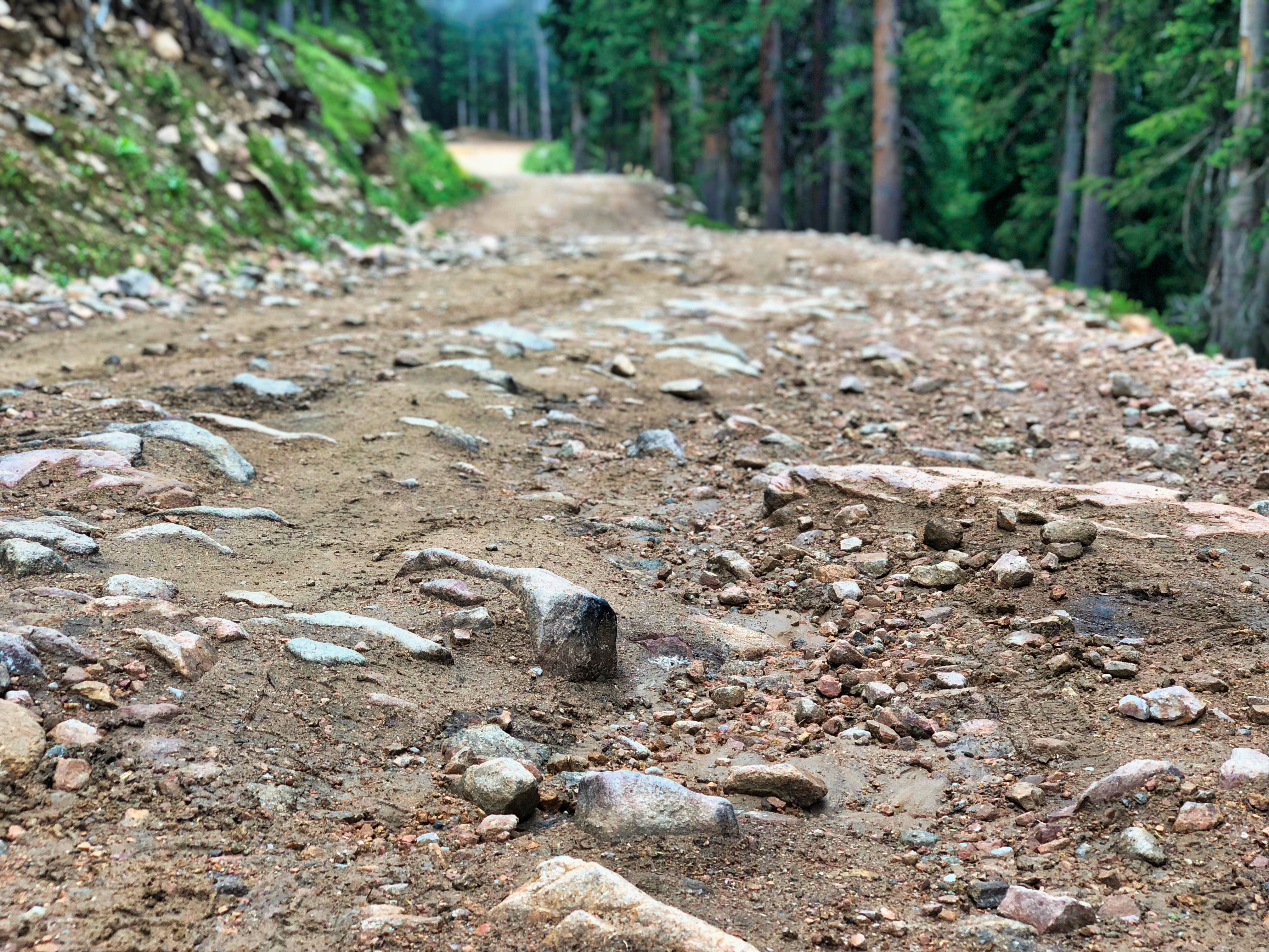 Typical road conditions on Rollins Pass